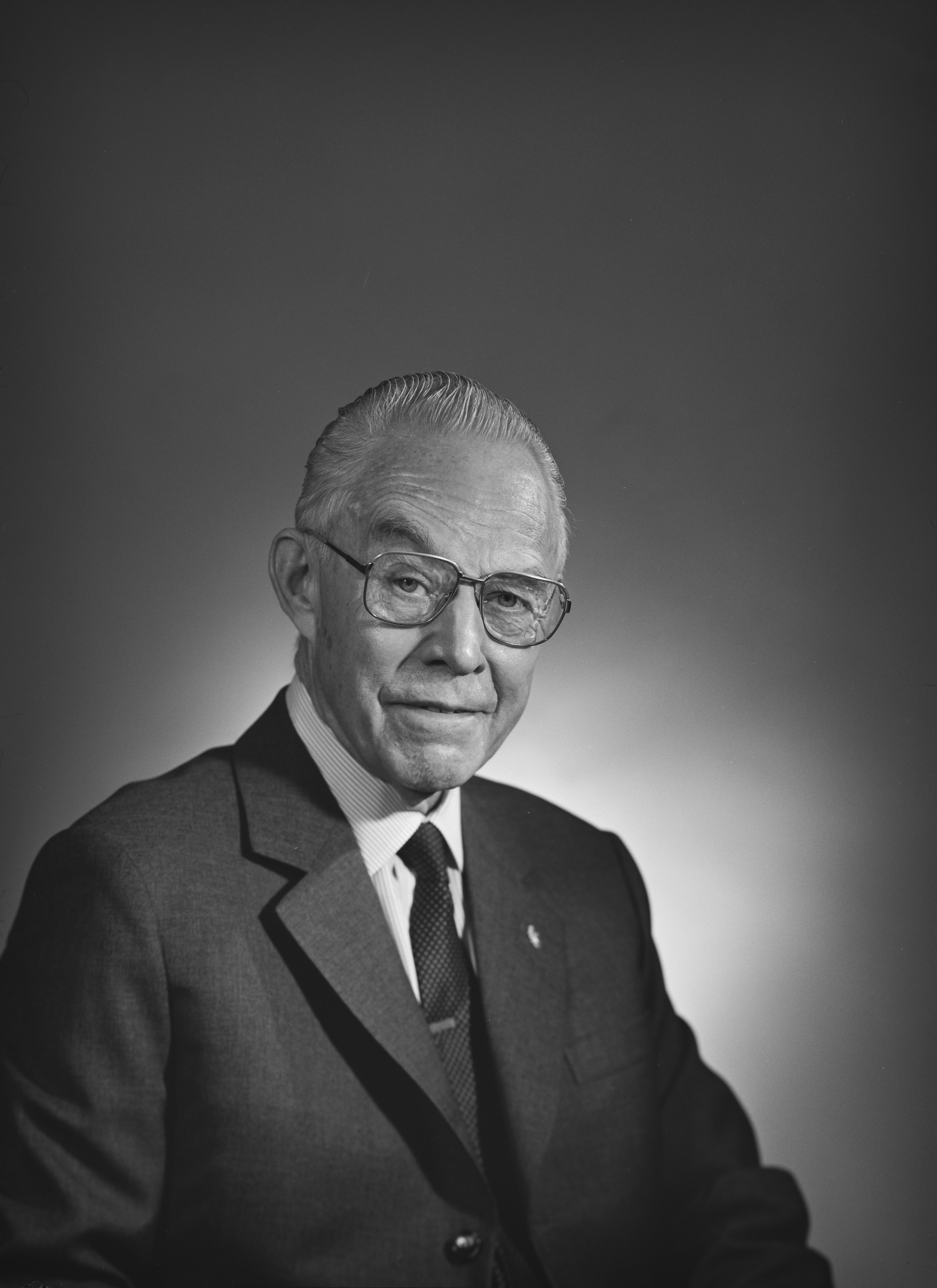 Photograph of the Finnish bank director Mika Tiivola (1922–1994).